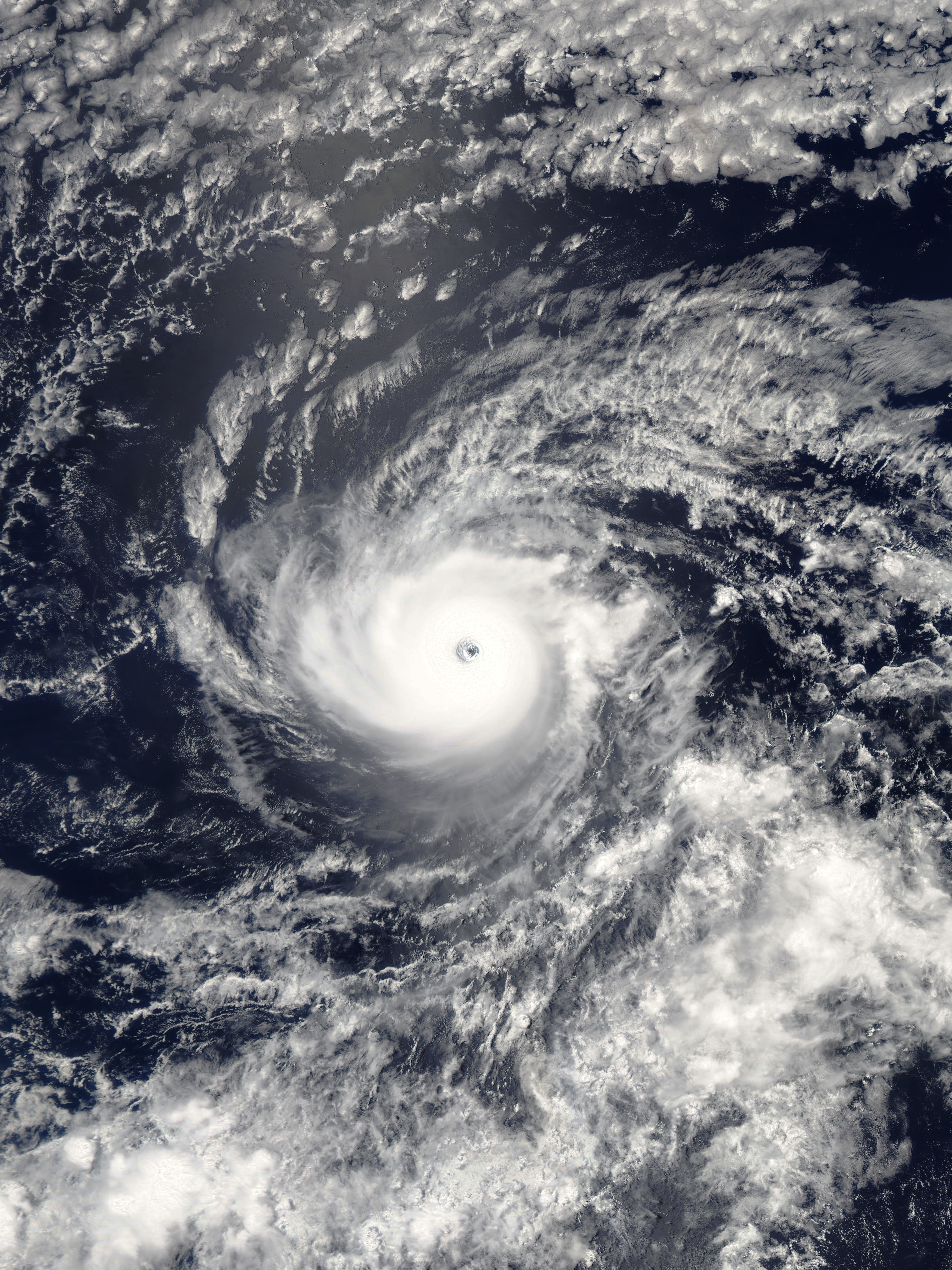 Hurricane Hector on August 6, 2018